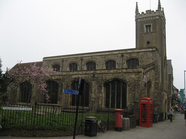 St Clements Church Cambridge Built in 1821. Architect Charles Humfrey added the tower which sits incongruously with the rest of the church which is much older.